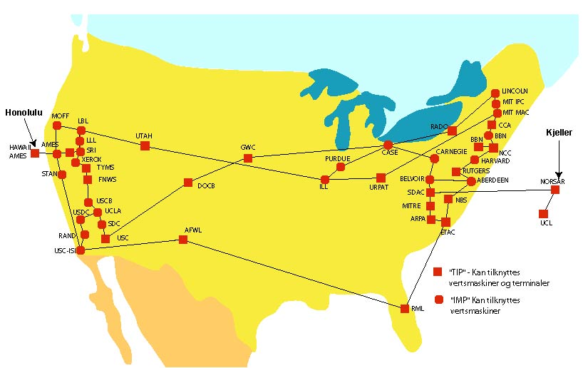 Own drawing based on notes and information remembered from 1974